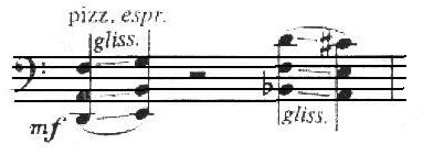 First theme from Gyorgy Ligeti's Sonata for solo cello.